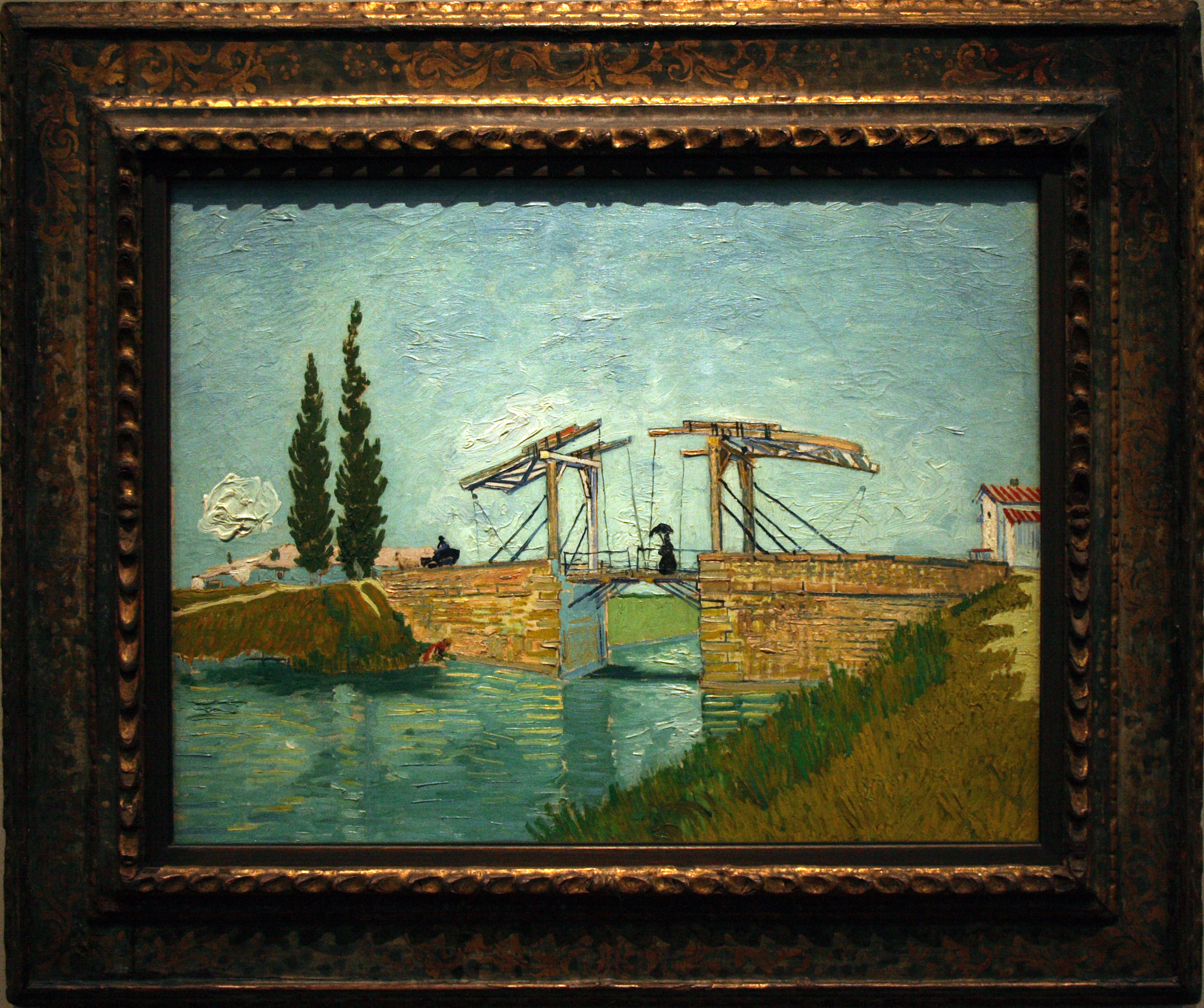 Painting of Van Gogh in the Wallraf-Richartz Museum, Cologne